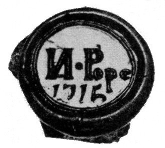 Wine bottle seal embossed N Pope 1715 unearthed on Abbington property purchased in 1718 by Augustine Washington located on Popes Creek.